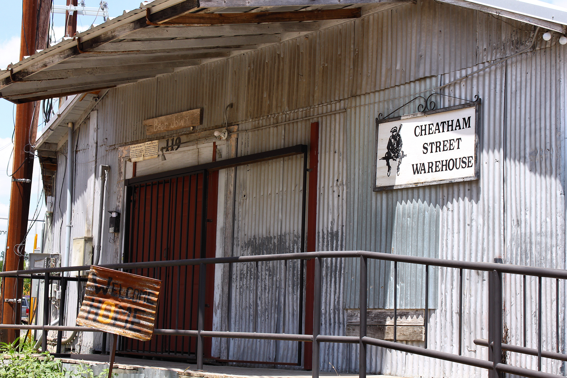 East entrance to Cheatham Street Warehouse in San Marcos, Texas, United States.